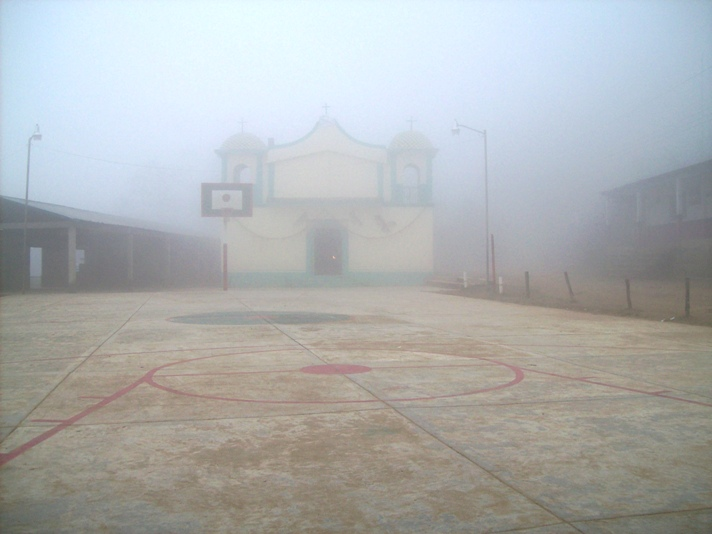 San José Chinantequilla Oaxaca